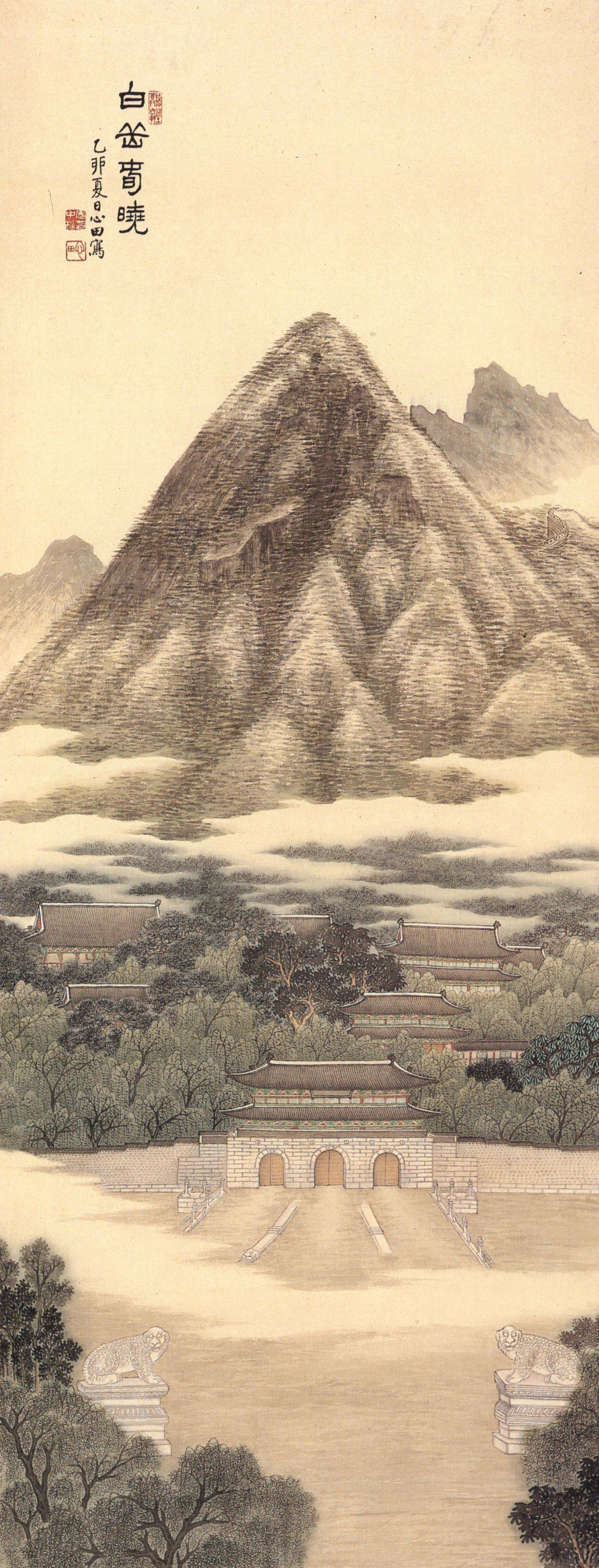 Spring Dawn at Mt. Baegak (Baegakchunhyo). Gyeongbok Palace is drawn using perspective. 51.5cm×125.9cm In the upper left corner, Eul-myo Ha-il (i.e. Summer 1915) is written